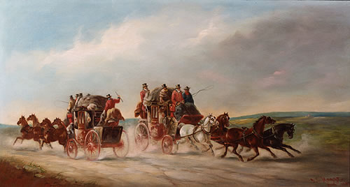 Brighton is roughly 60 miles from London, with a some maybe 500' hills to cross on the way.